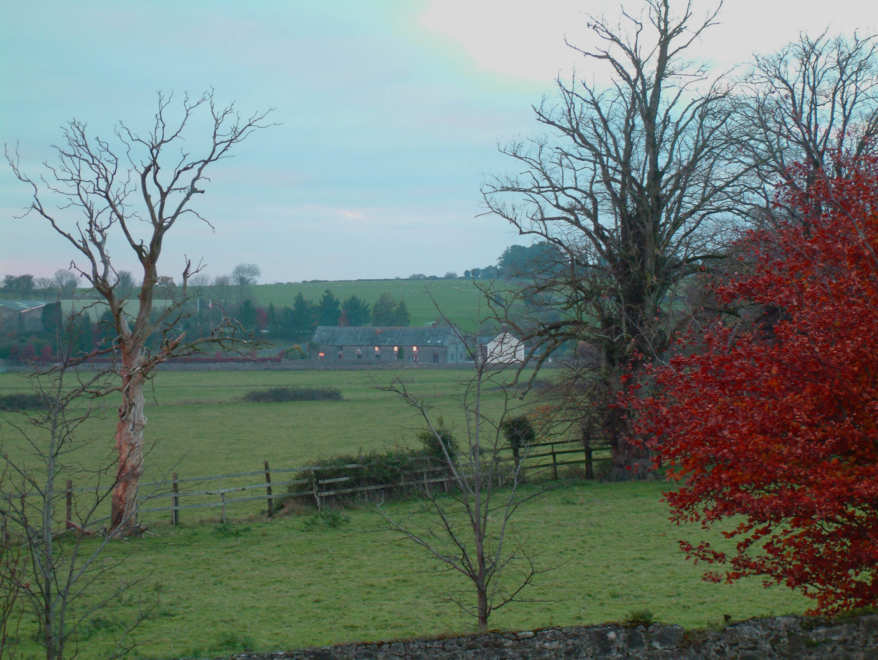 Looking across the street from the new house in Cashel.